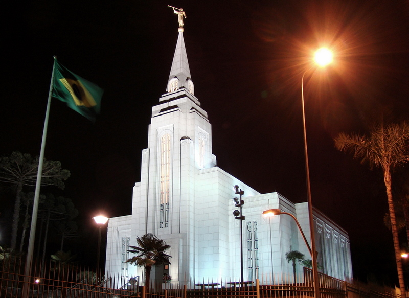 The Curitiba Brazil Temple of The Church of Jesus Christ of Latter-day Saints, Parana State, Southern Brazil.